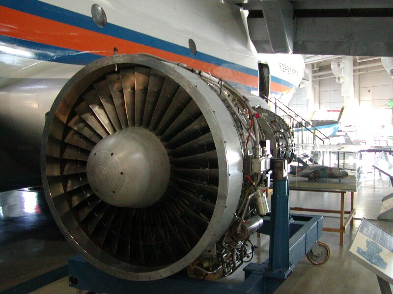 MITI/NAL FJR710 turbofan engine; the first type of turbofan engine developed in Japan.